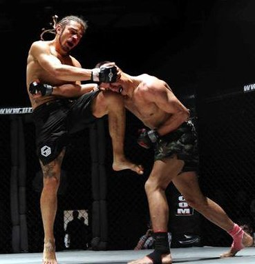 Jason Ball kneeing Tim Newman